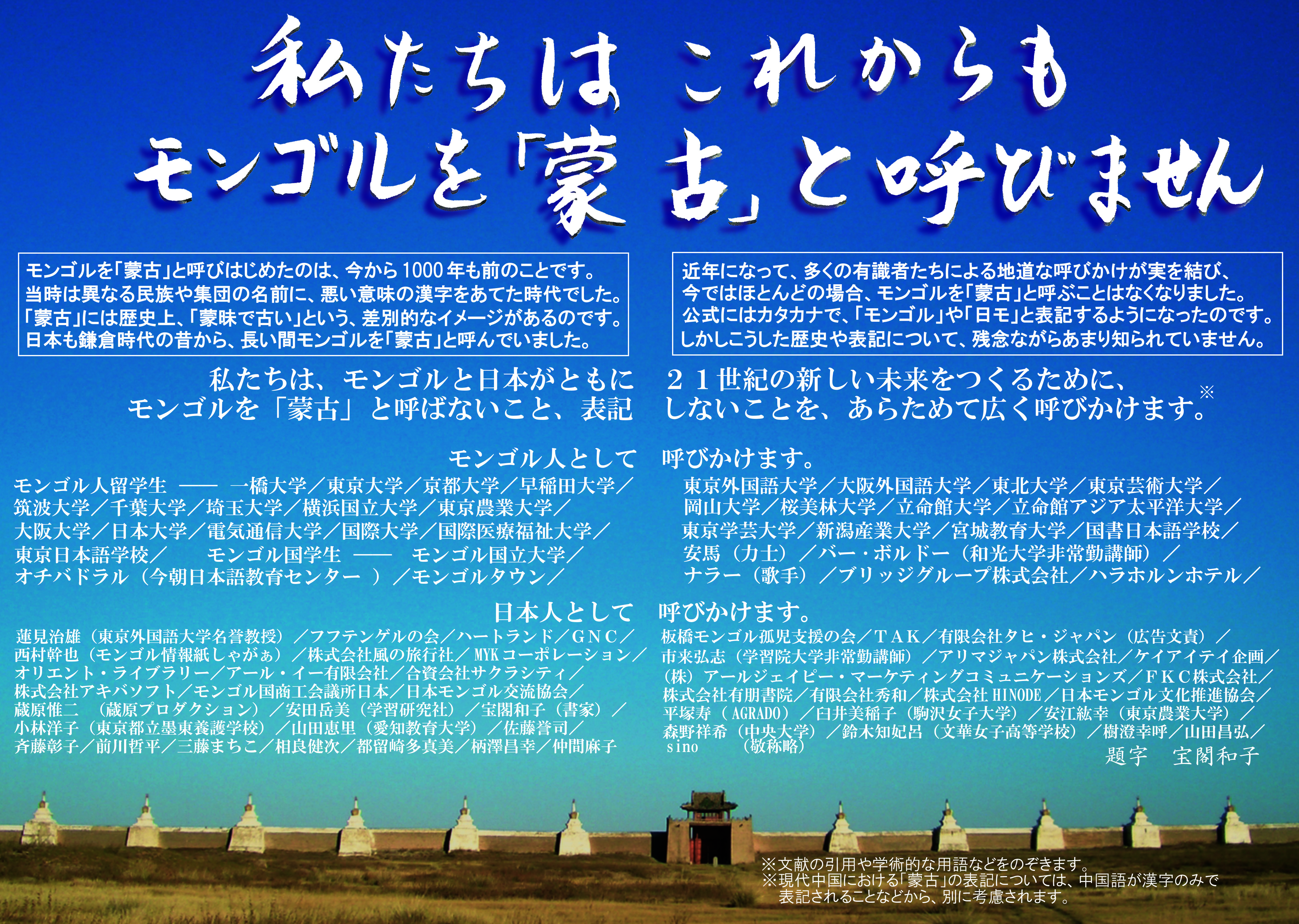 The official Message of Havriin Bayar 2007 (Mongolian spring festival in Tokyo), printed in the official pamphlet.